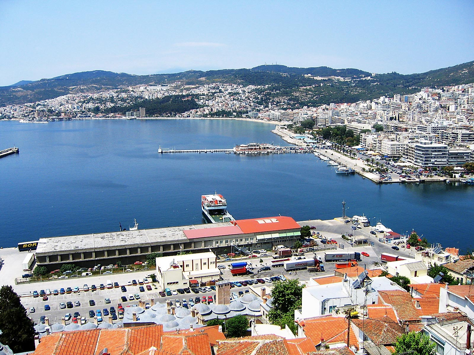 View of Kavala from its acropolis